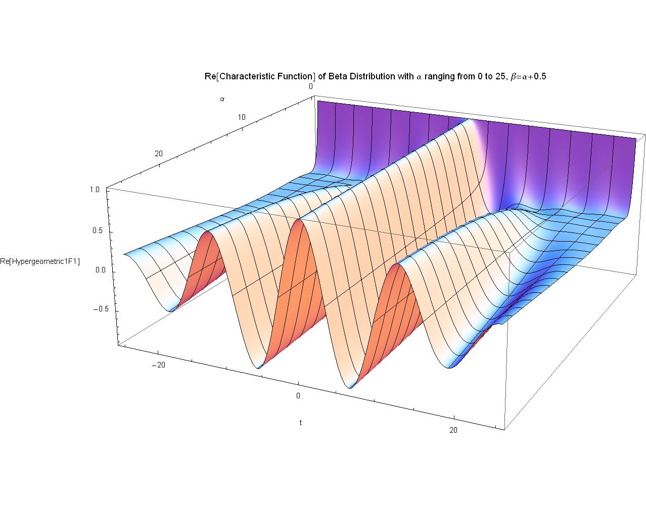 Re(CharacteristicFunction) Beta Distribution alpha from 0 to 25 and beta=alpha+0.5 Back - J. Rodal